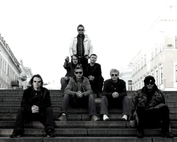 Howard Gray portrait